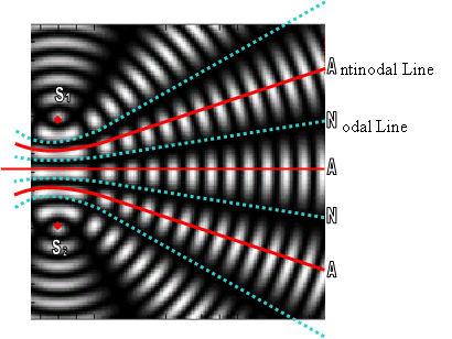 nodal lines and antinodal lines